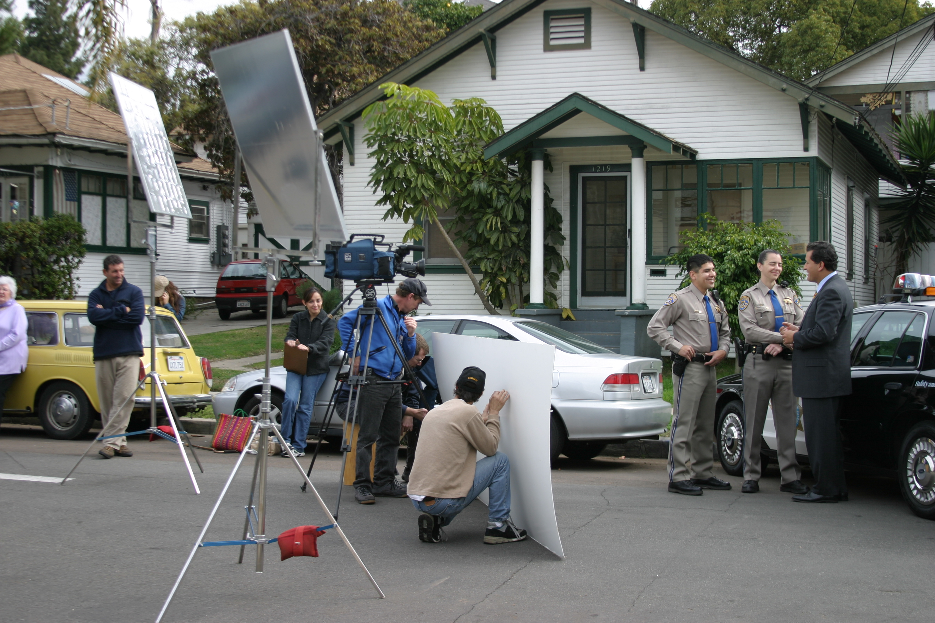 Mark Schulze, Videographer and Director of Photography, Crystal Pyramid Productions, Videotapes Juan Vargas for a Political Television Commercial in San Diego. Photograph by Patty Mooney, San Diego, California.